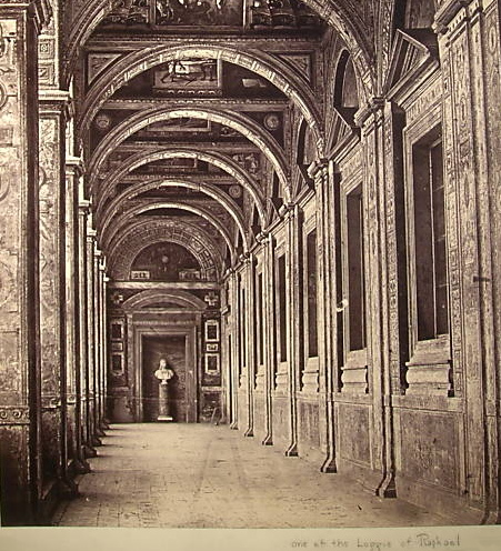 Robert MacPherson (1811-1872) - Rome - Loggia of Raphael in the Vatican Palace.